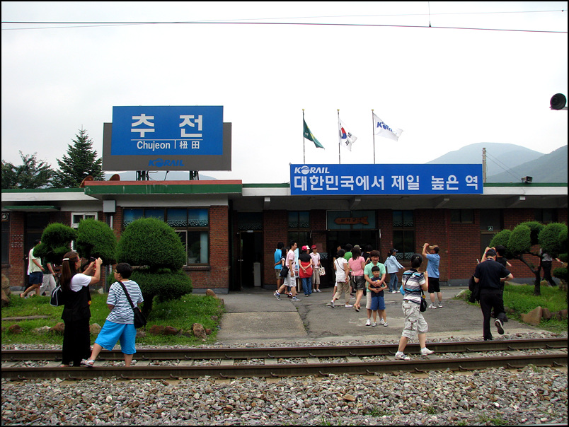 Chujeon Station